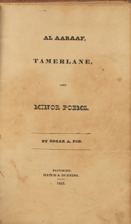 Title page of the first publication of the Al Aaraaf, Tamerlane, and Minor Poems by Edgar Allan Poe (1829), his second published collection. This copy is privately owned as part of the Susan Jaffe Tane Collection.